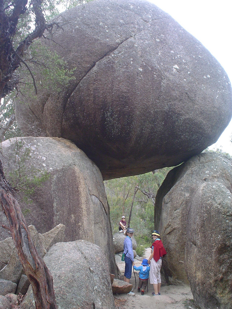 Girraween National Park. Queensland This photo is also licensed under CC BY-NC-SA. You can deal with it under the terms of either licence, or both. This means that you can combine it with other content that uses either licence. If you don't need to combine this photo with other ShareAlike works, then I encourage (but not require) you to apply both licences to any copies or derivatives that you distribute.